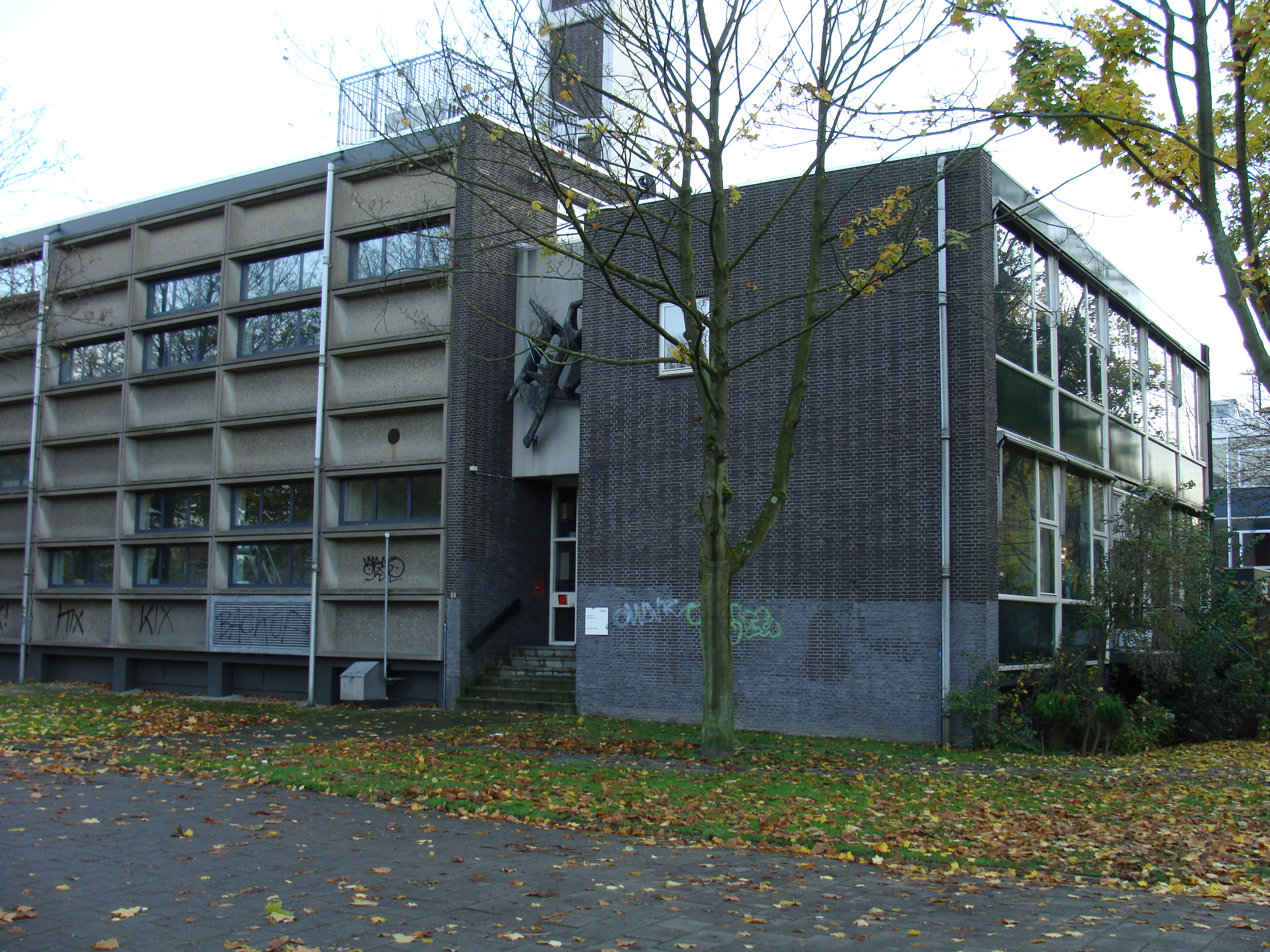 Amsterdam-Slotervaart telephone exchange, on Plesmanlaan, Amsterdam, the Netherlands. Building dates from early 1960s, architect unknown (Dienst der Publieke Werken, Gemeente Amsterdam (Department of Public Works, Municipality of Amsterdam), see [1])